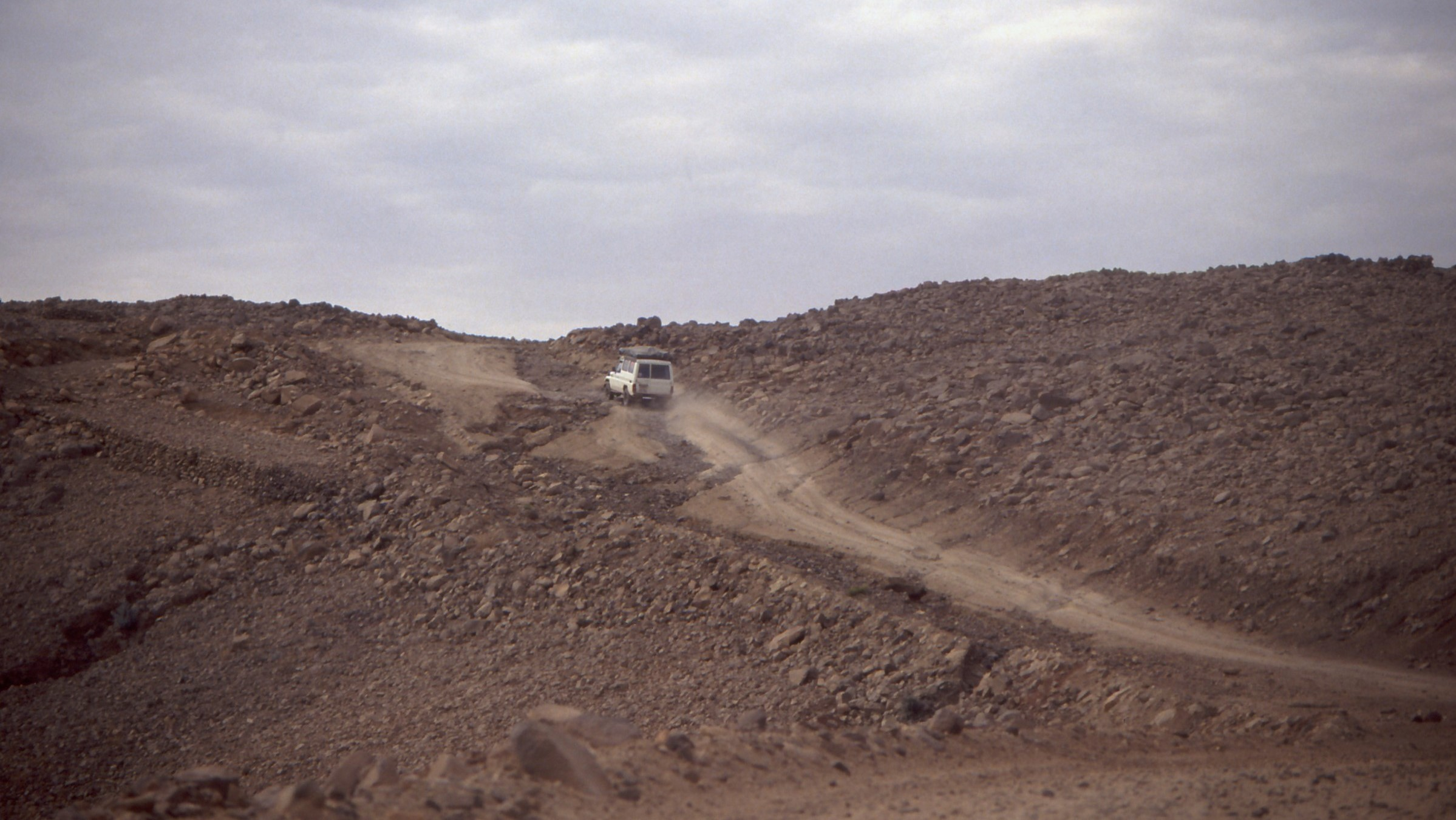 Hammada desert near the Ahaggar mountains in Algeria